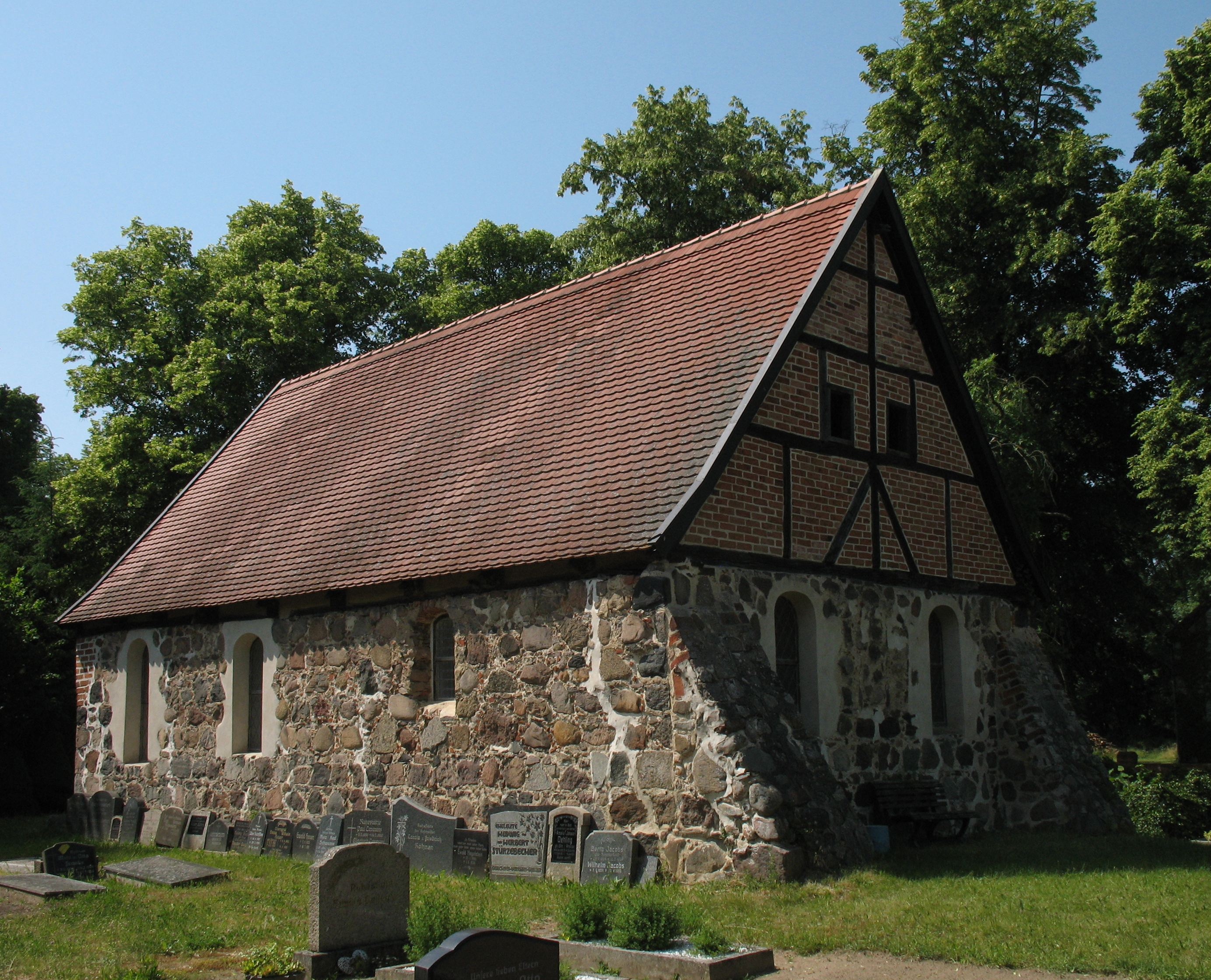 Church in Lenzen-Mellen in Brandenburg, Germany